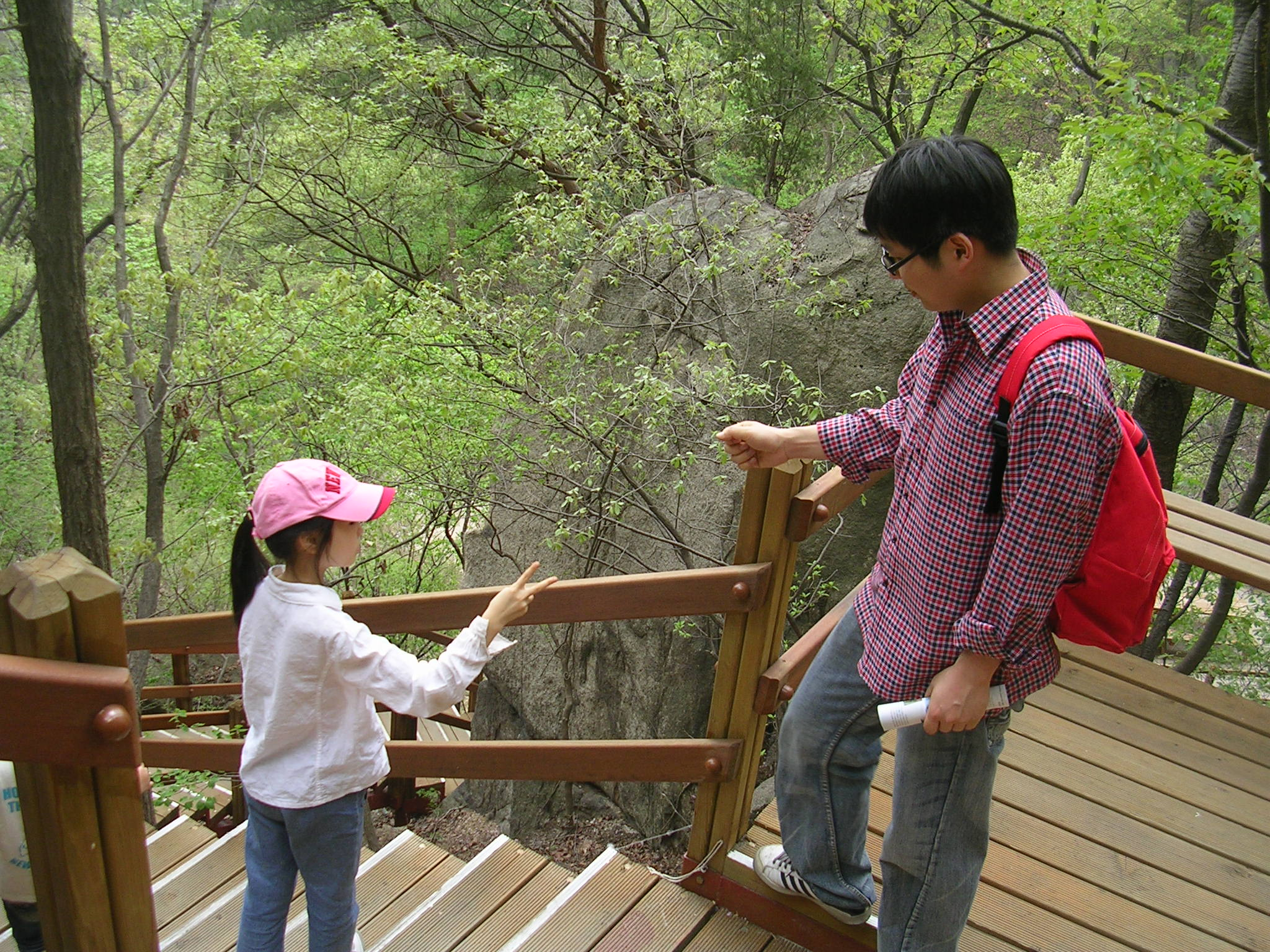 A man and little girl playing a hand game of rock-paper-scissors in Seoul, South Korea.